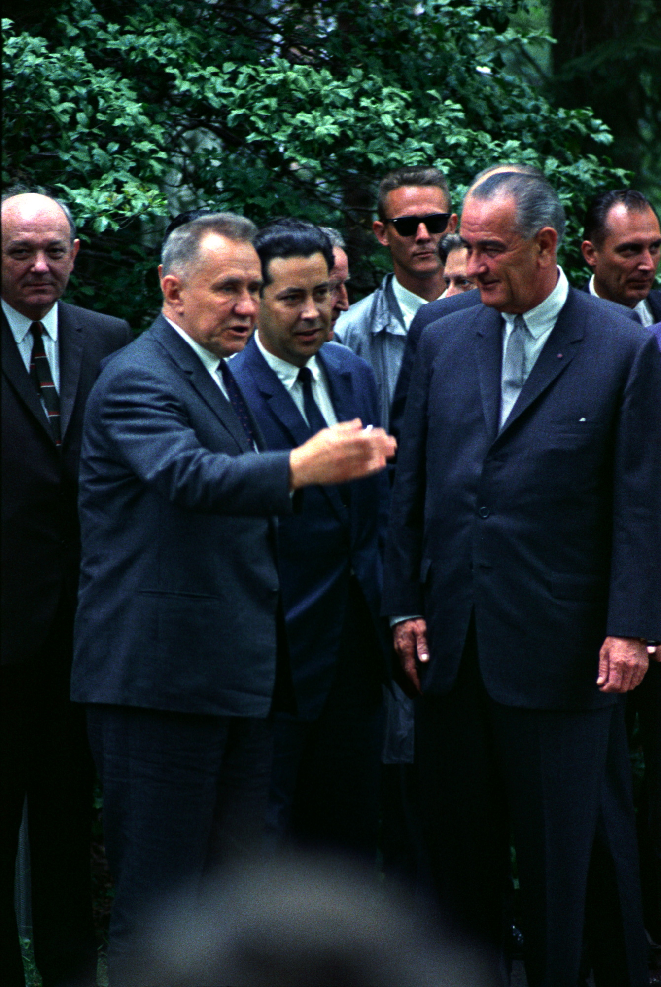 President Lyndon B. Johnson welcomes Premier Kossygin during the 1967 Glassboro Summit Conference